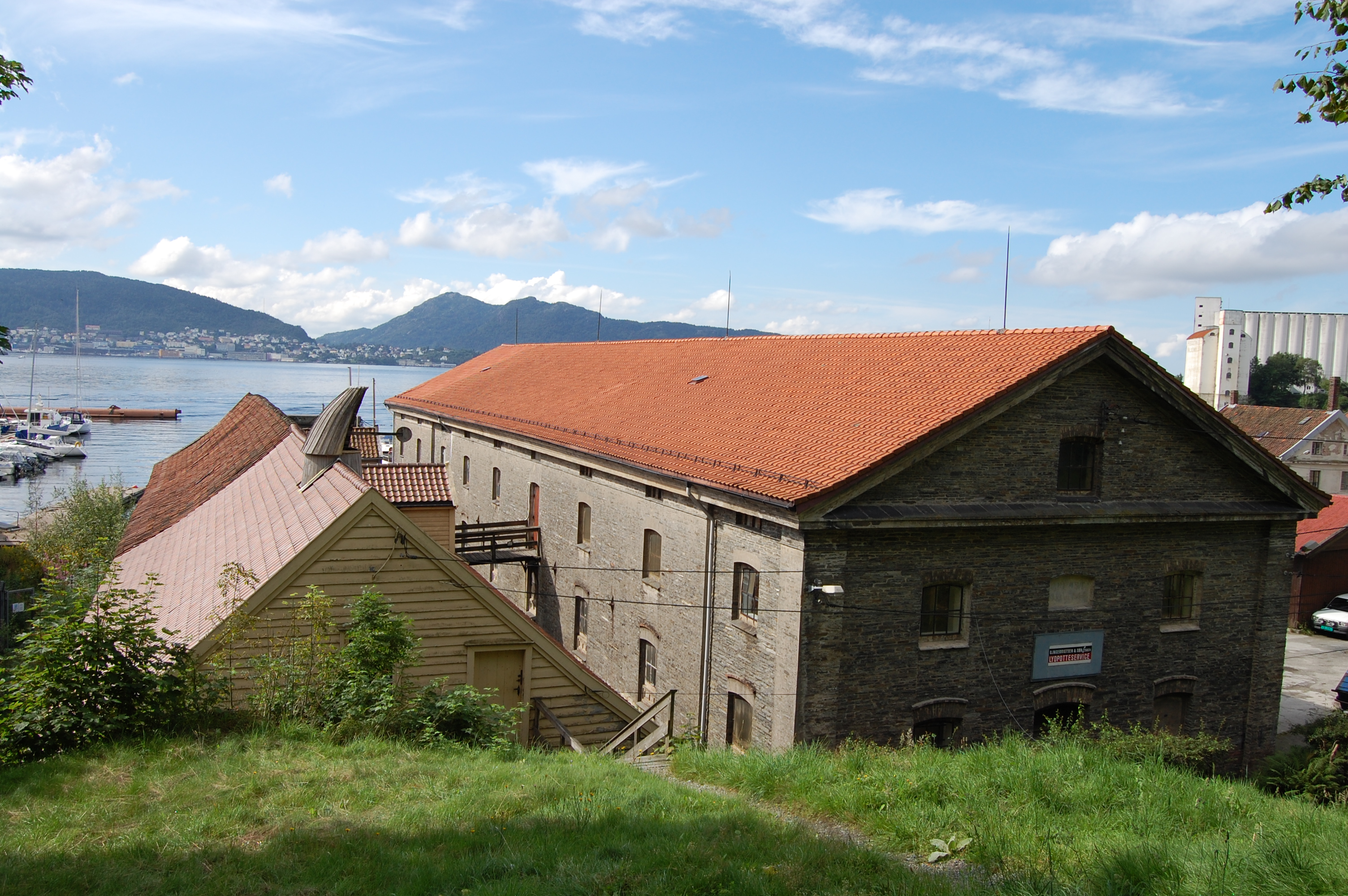 Elsesro